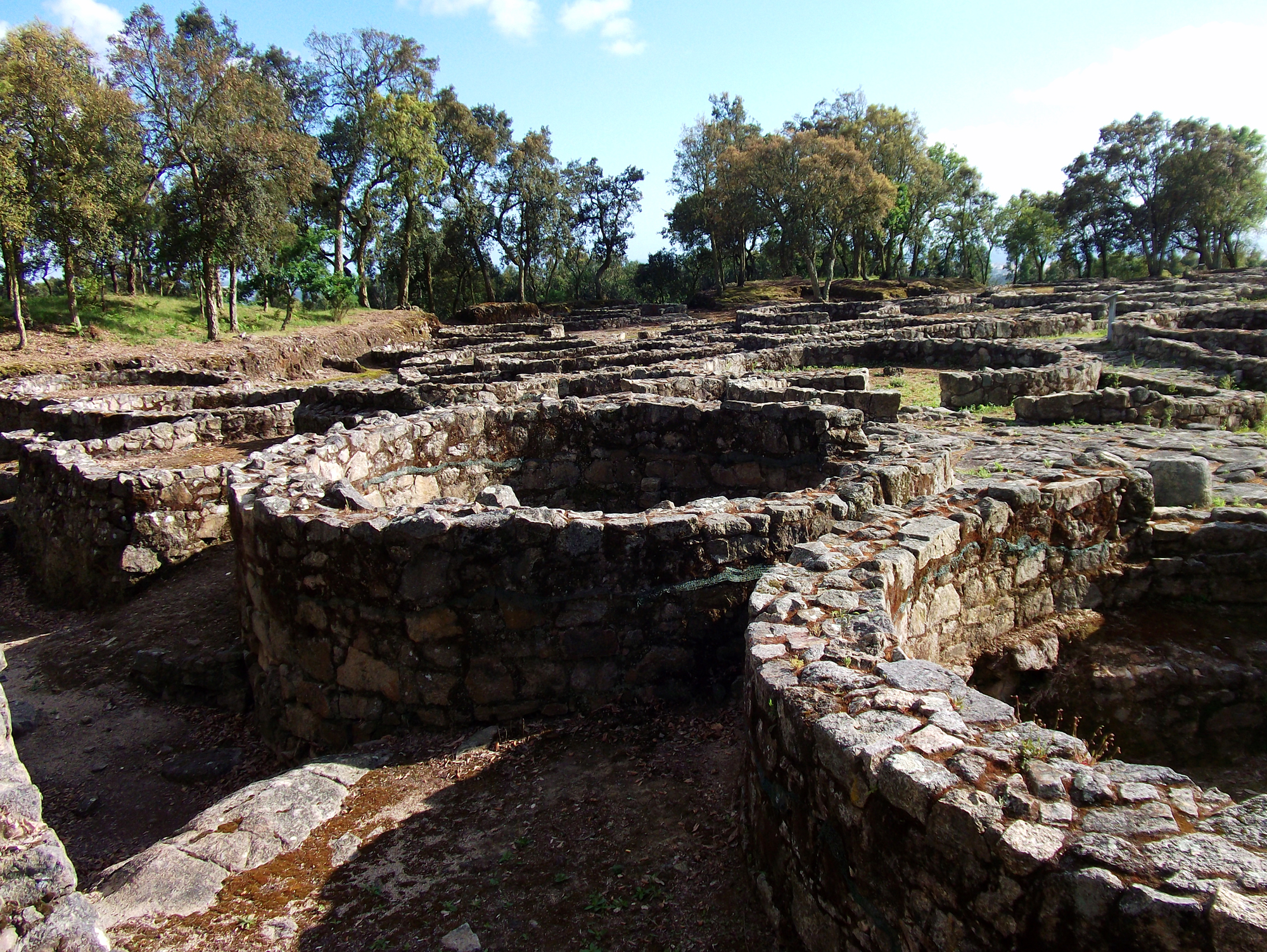 Site housing in Cividade de Terroso